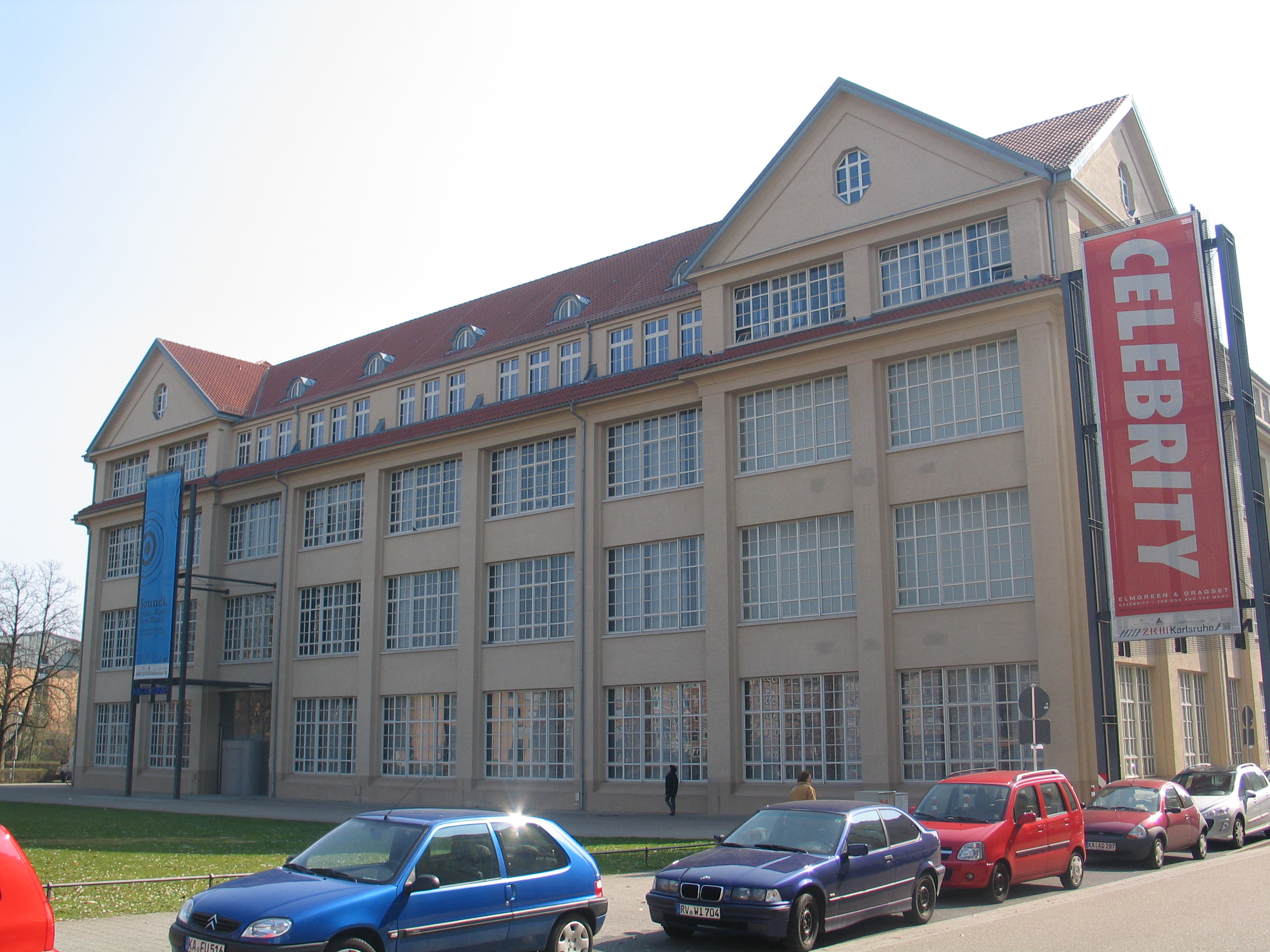 Museum of Modern Art Karlsruhe